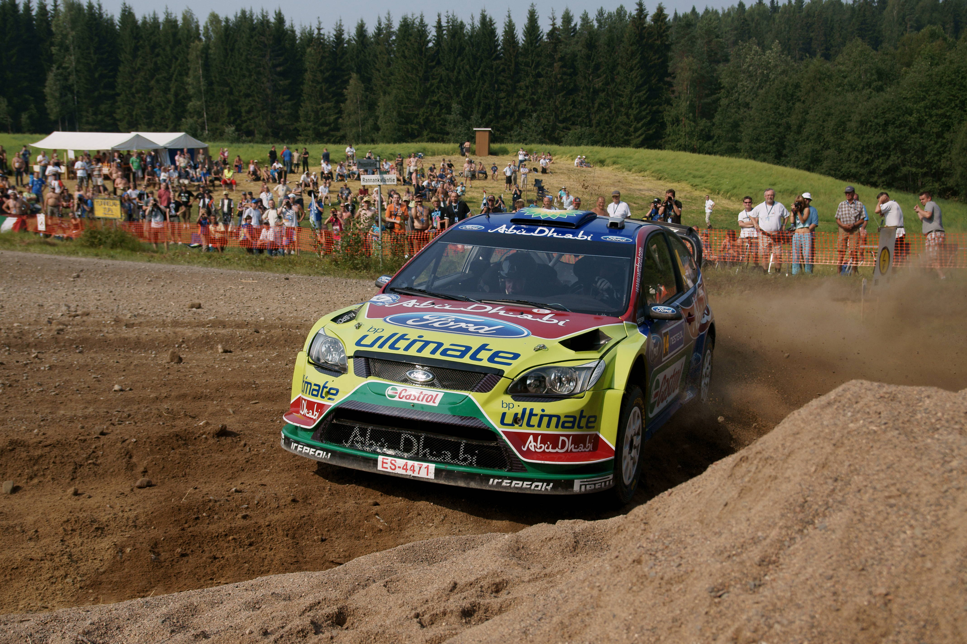 Khalid Al Qassimi driving at Rannakylä shakedown in Muurame, Finland.